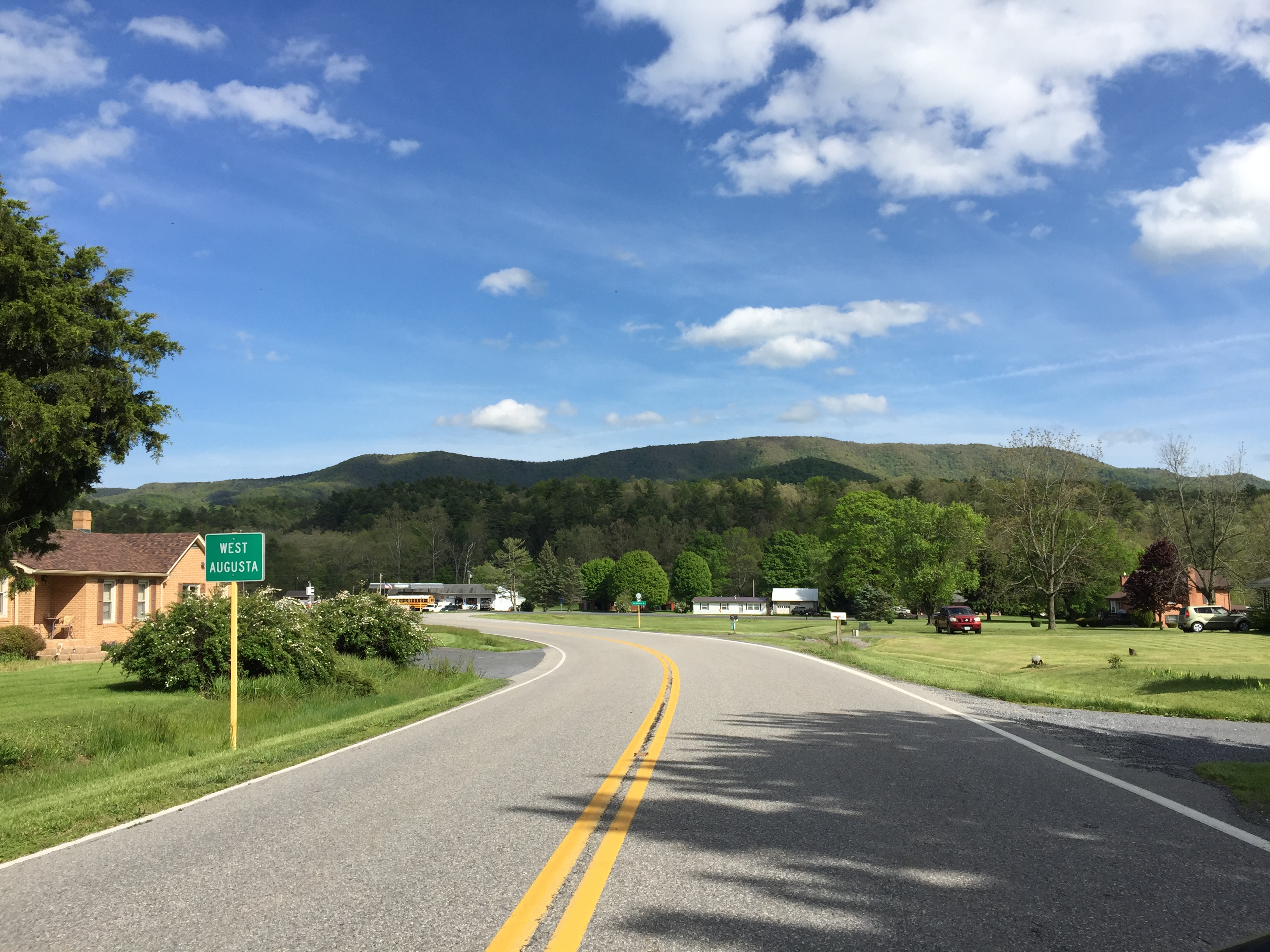 View east along Shenandoah Mountain Road (U.S. Route 250) in West Augusta, Augusta County, Virginia